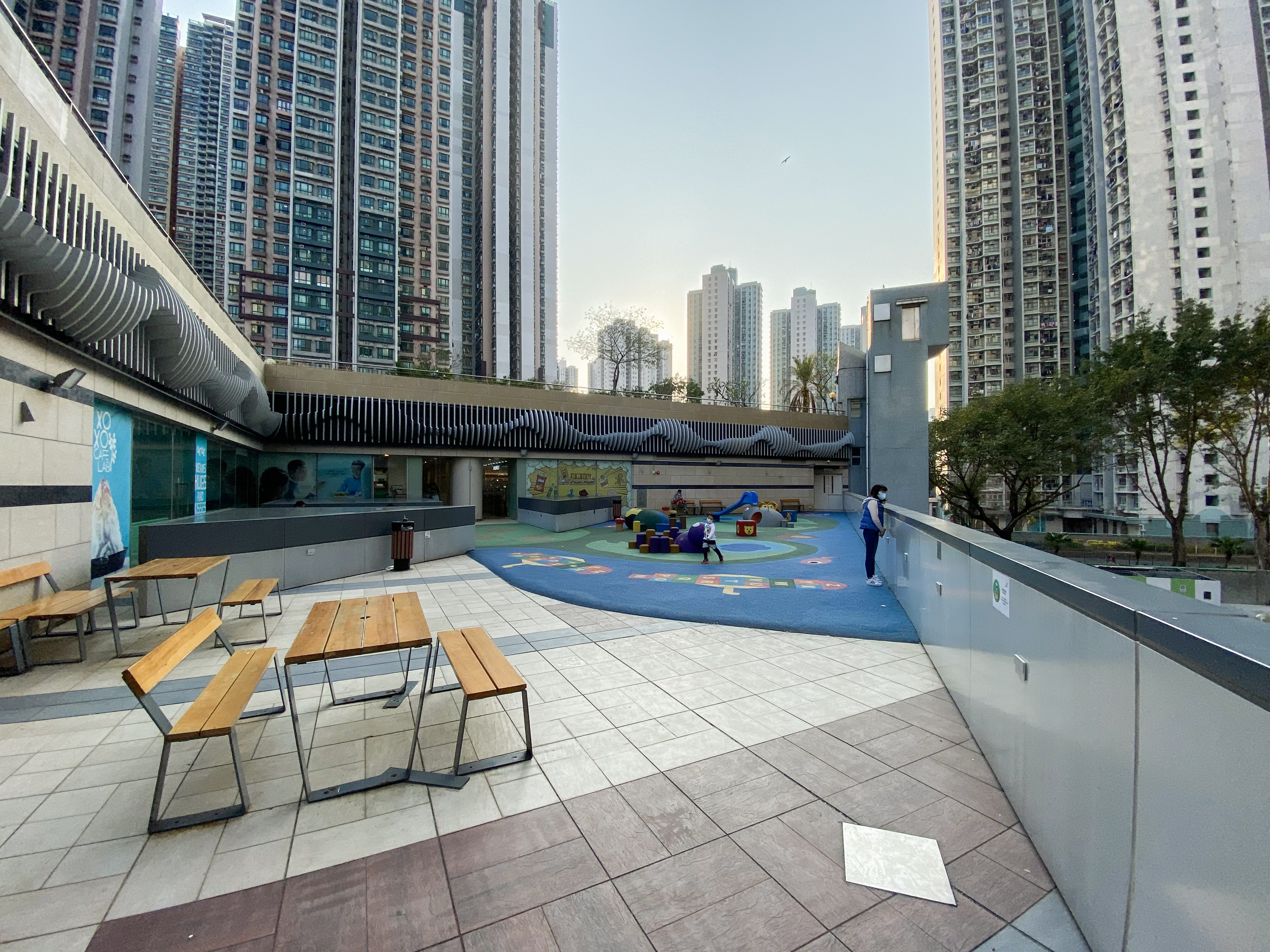 TKO Gateway Level 1 East Playground